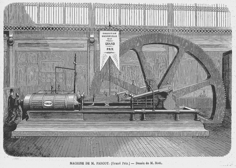 Farcot's Horizontal Steam Engine, grand prize winner at the Paris Exposition universelle de 1867.